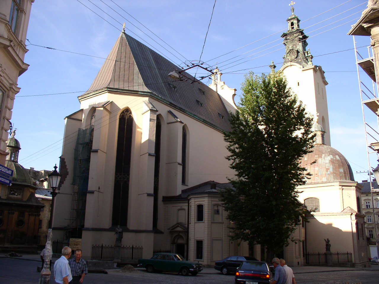 Latin cathedral. Lviv, Ukraine.